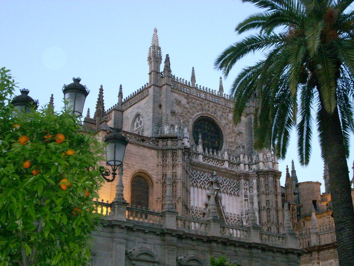 Seville's Cathedral